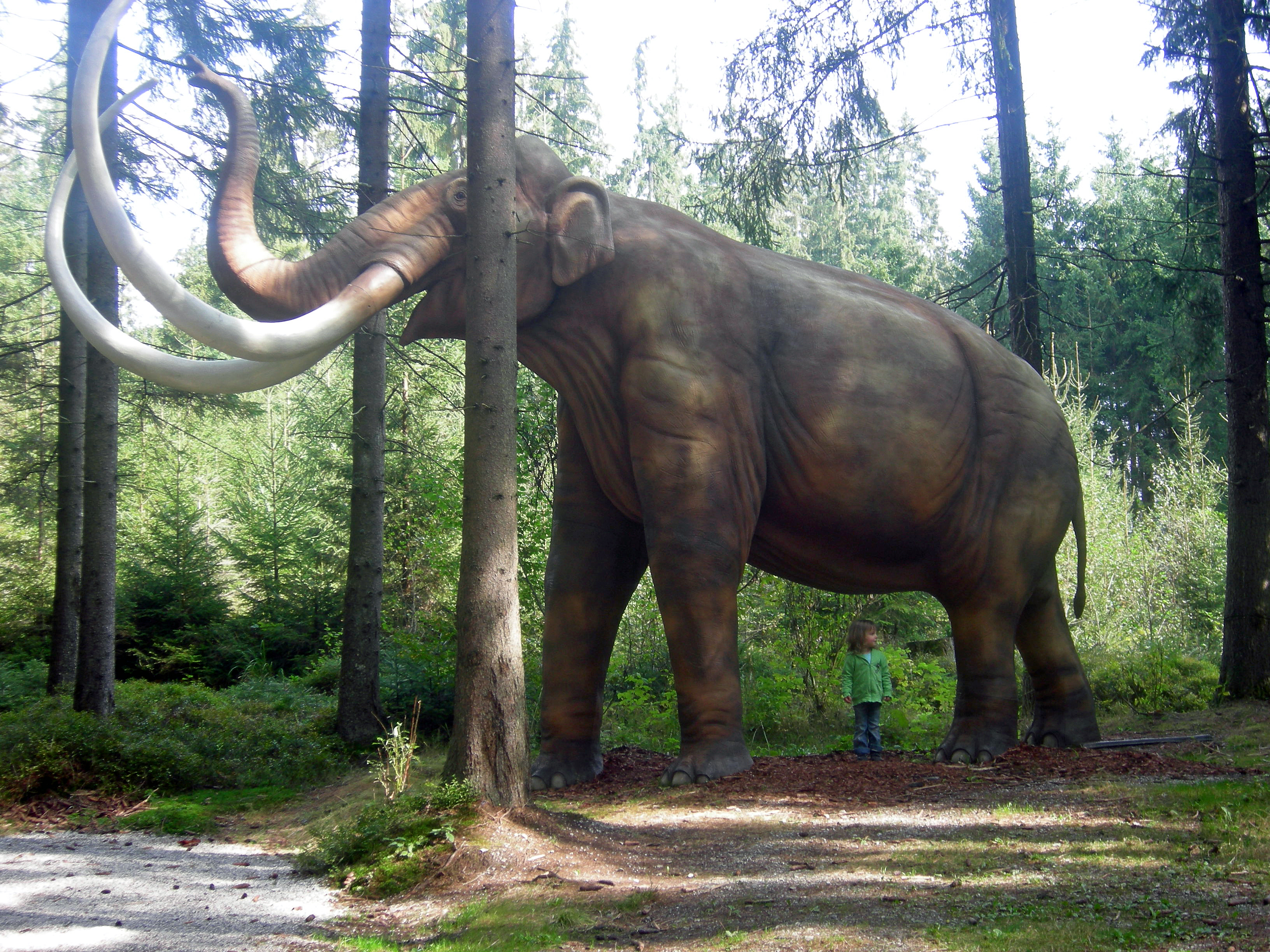 Full size life reconstruction of a mammoth (Mammuthus trogontherii). Mind the three years old little child at the rear legs of the giant animal.